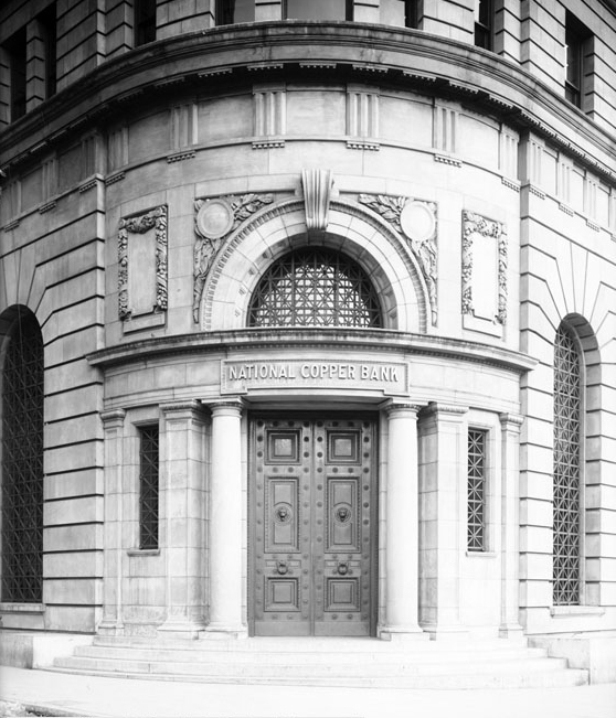 National Copper Bank entrance, SLC UT, 1911. Commercial photo taken on assignment, published circa 1911.